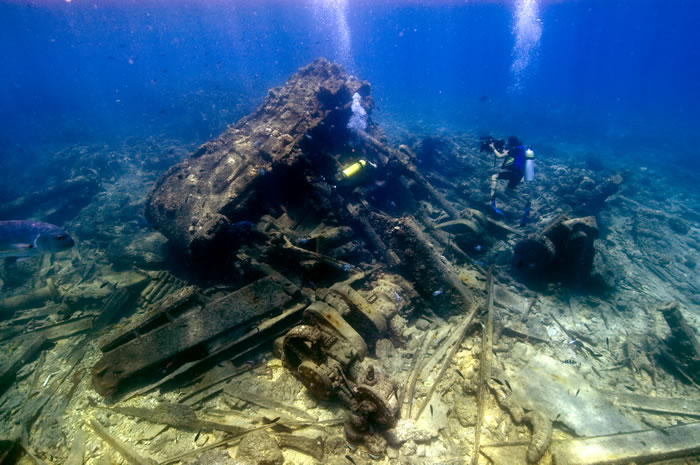 Stephani Gordon films a triple expansion steam engine and wreckage of the SS Quartette.